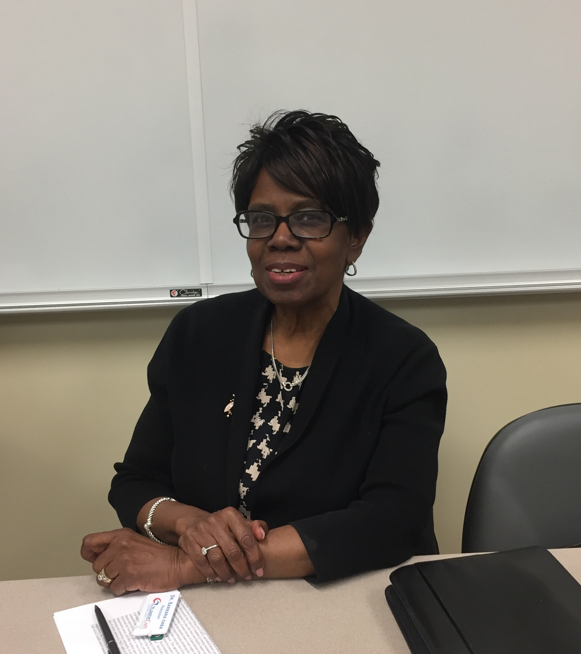 Image of President Dr. Barbara Gaba at the Cape May campus of Atlantic Cape Community College